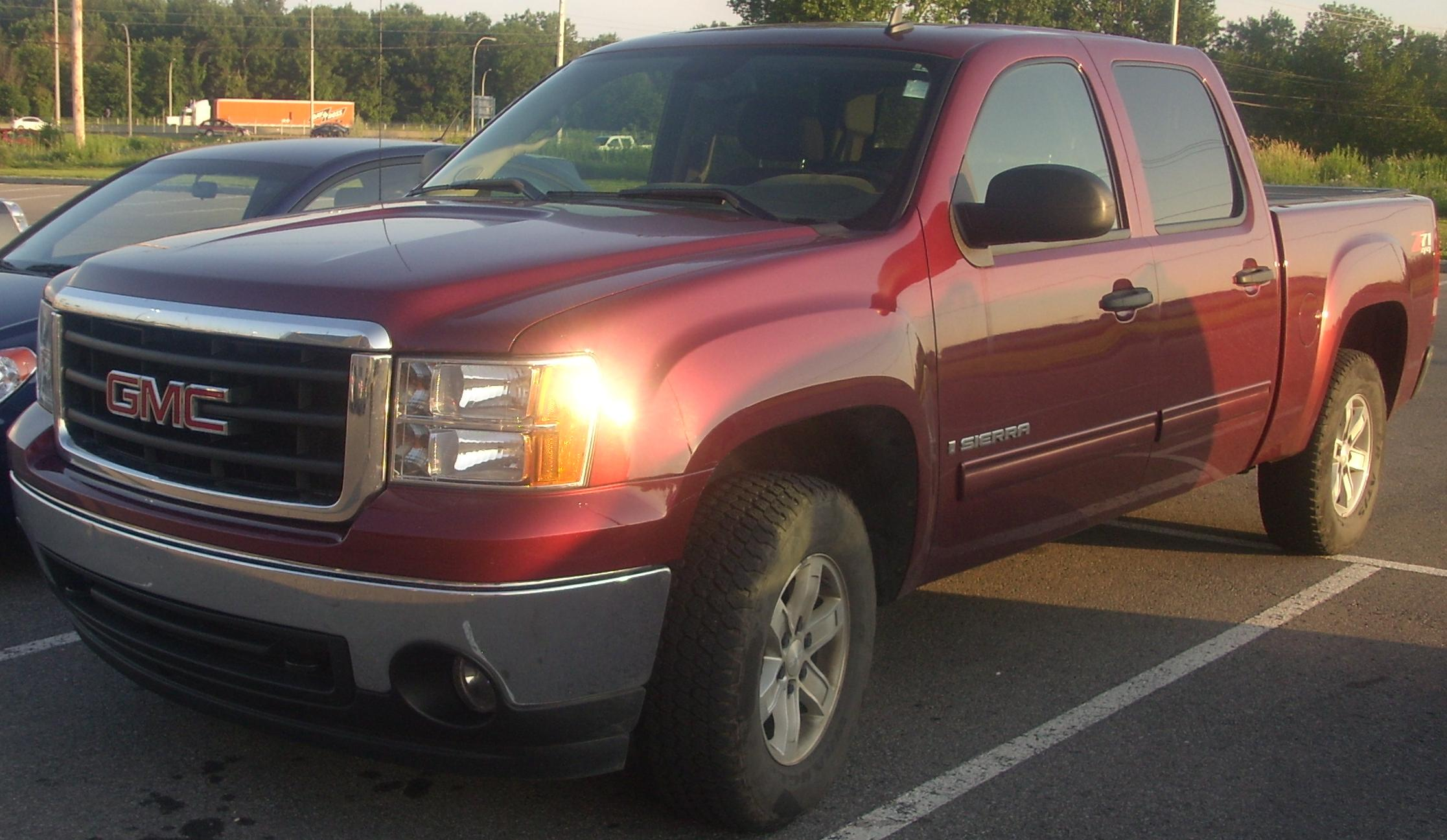 2007-2010 GMC Sierra photographed in Kirkland, Quebec, Canada.